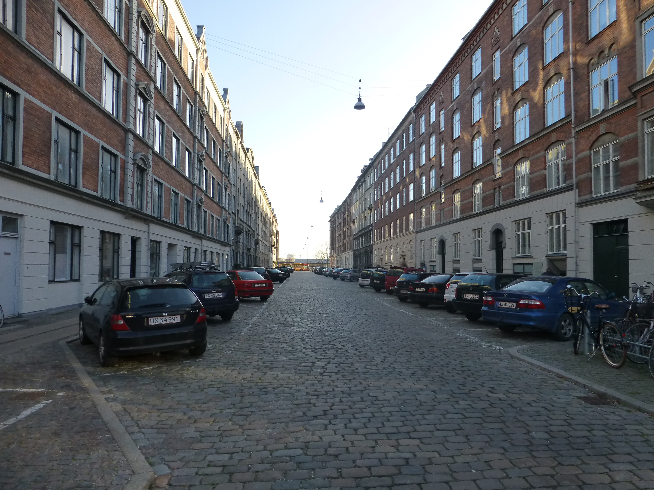 The street Arkonagade in Vesterbro in Copenhagen.